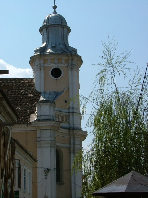 Cluj-Napoca Greek-Catholic Cathedral